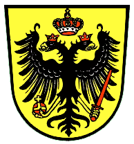 Coat of Arms of Erlenbach am Main